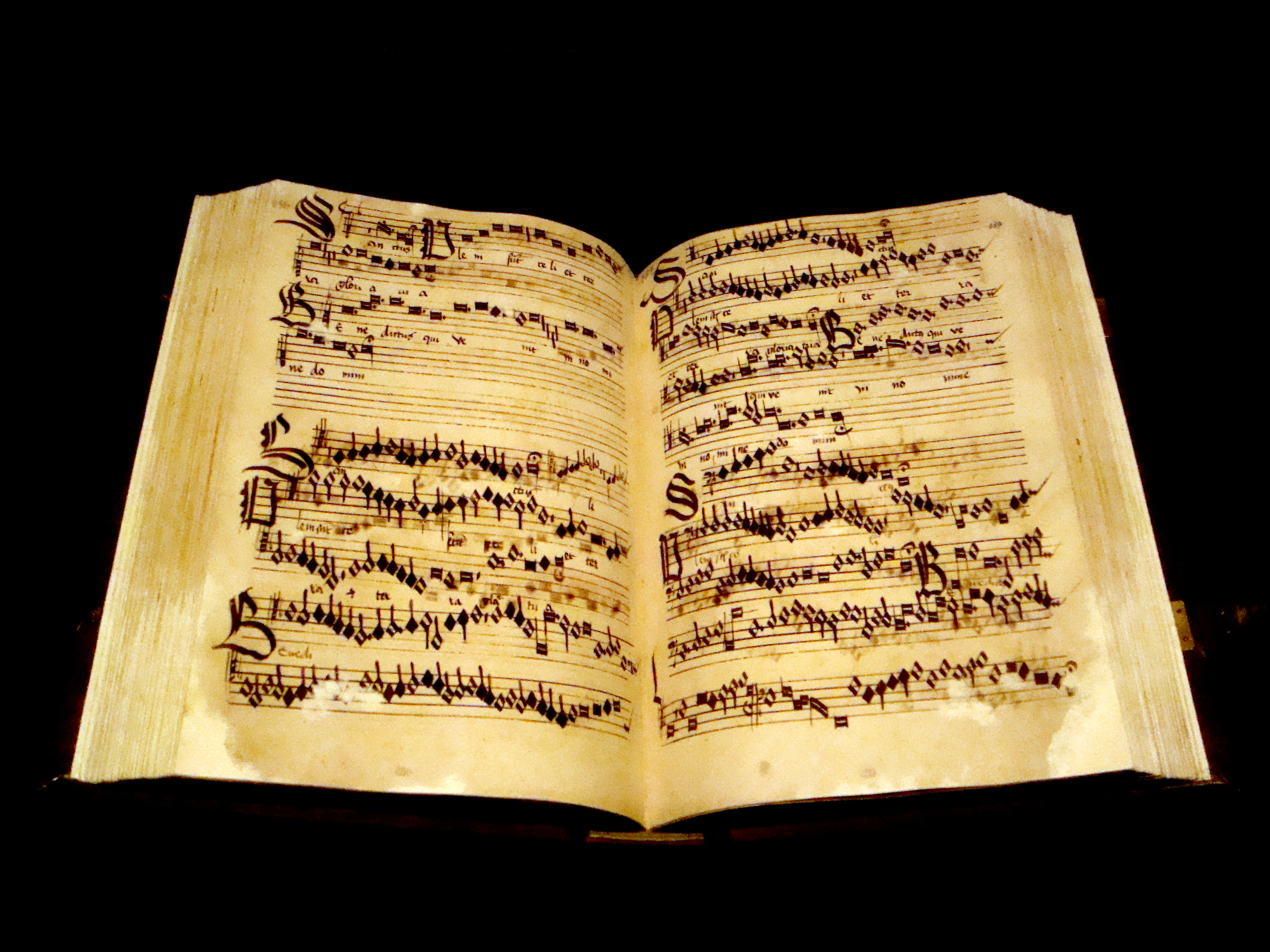 The indoor area of the SLUB.